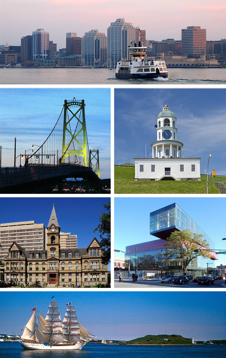 A montage of sights in Halifax, Nova Scotia. Derived from other free images found on Wikimedia Commons.